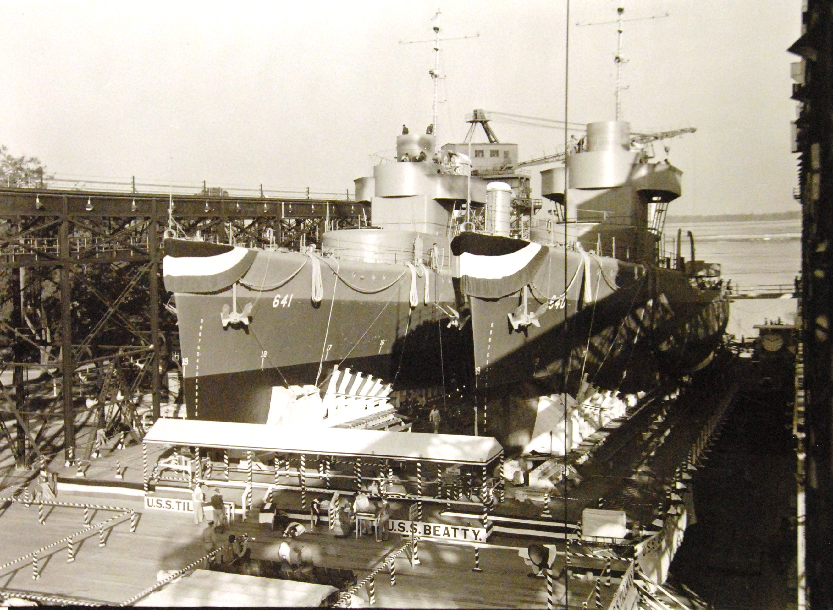 Lot 5399-3: Charleston Naval Shipyard, Charleston, South Carolina, December 20, 1941. Dual launching of USS Tillman (DD 641) and USS Beatty (DD 640). Two ships just before launching. Tillman served in the Atlantic and Mediterranean during World War II and was decommissioned in 1947, scrapped in 1972. Beatty also served in the Atlantic and Mediterranean but was sunk by German aircraft on November 6, 1943. Secretary of the Navy Josephus Daniels Collection. (7/2/2015).